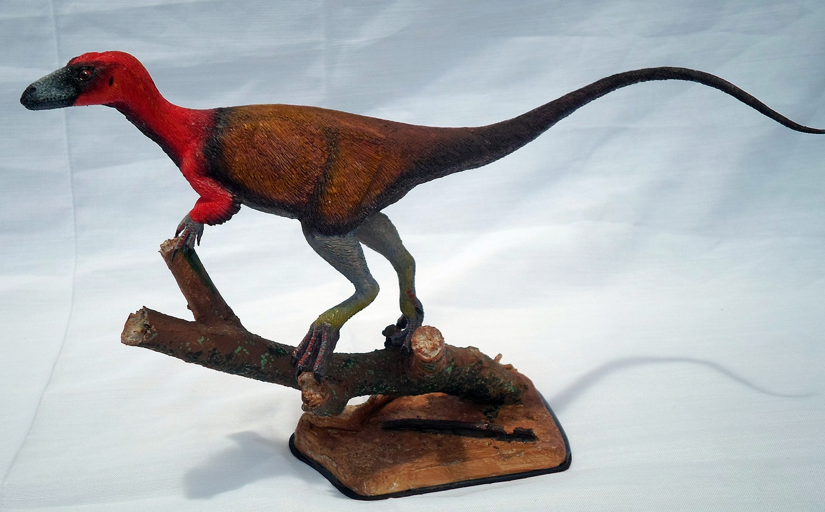 Model in resin in scale 1/5. São Paulo - Brazil